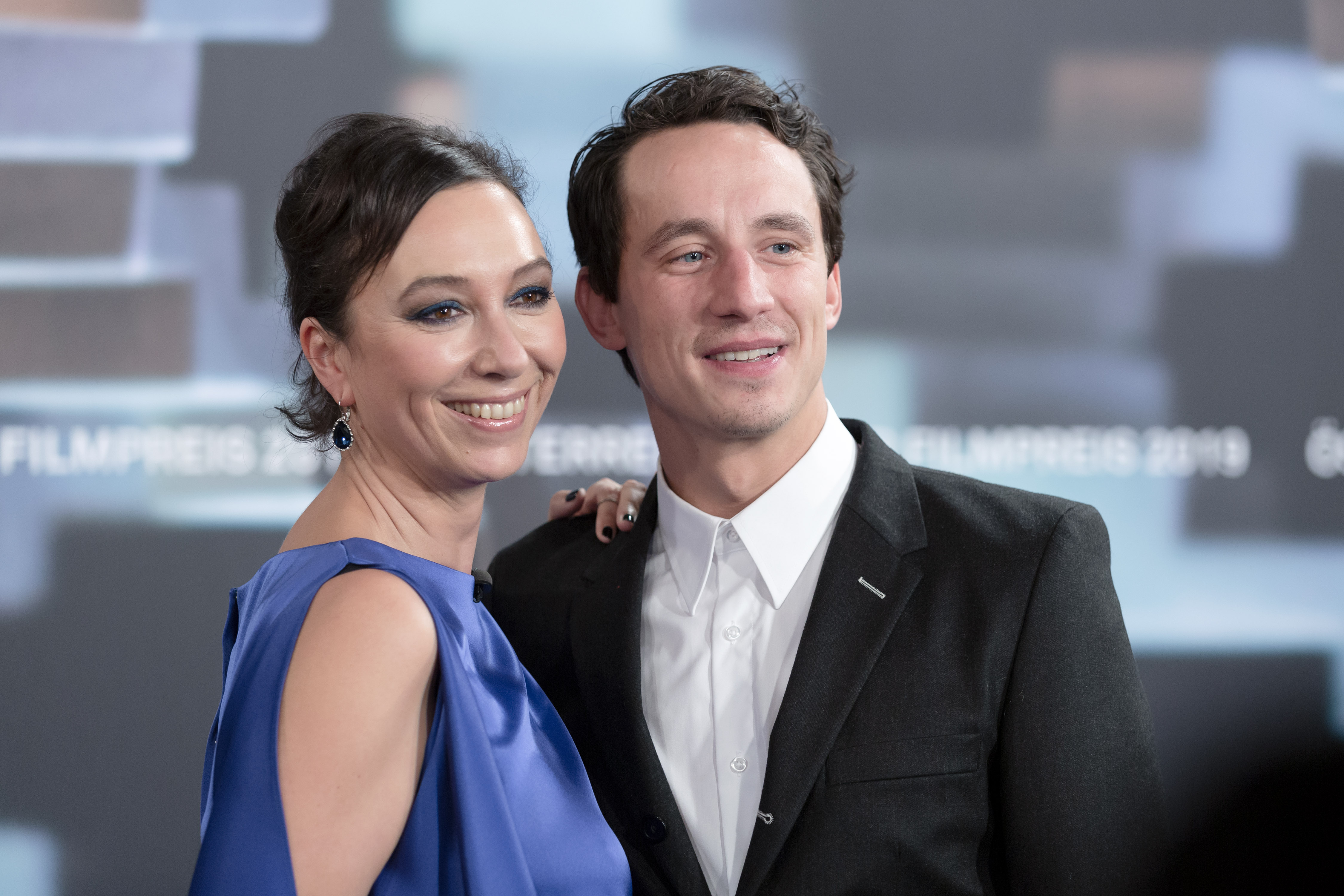 Ursula Strauss and Laurence Rupp, photo call at the Austrian Film Awards 2019 (Rathaus, Vienna,Austria).